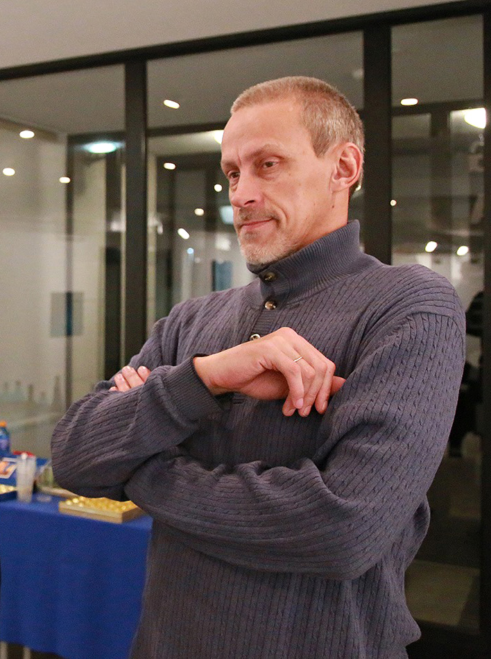 Agur Kruusing at the opening of Egon Erkmann's exhibition "Sin".